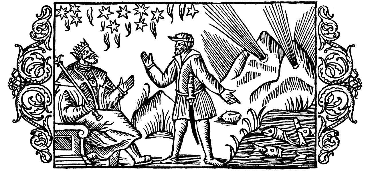 The woodcut shows a soothsayer in front of a king. We can see some of the signs in the nature the soothsayer uses: stars, fishes and sounds from the mountains.